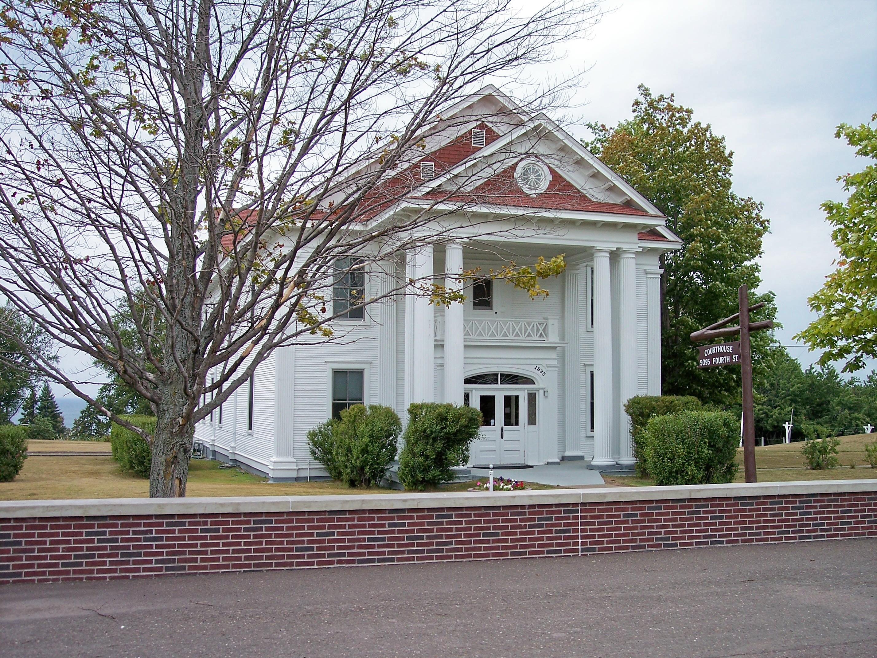 The Keweenaw County Courthouse in Eagle River, Michigan